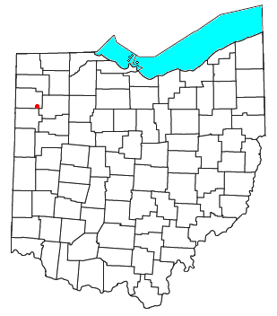 Locator map of the unincorporated community of Roselms in Paulding County, Ohio, United States.